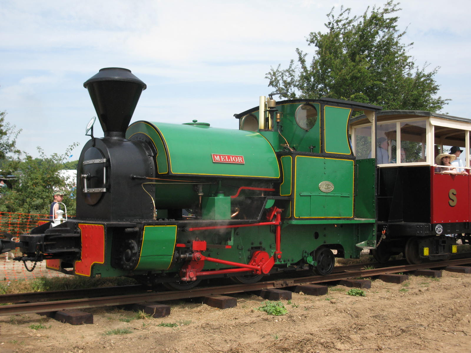 SKLR locomotive Melior at the Preston Steam Rally, Kent.